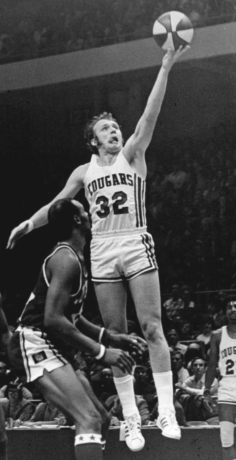 Professional basketball player Billy Cunningham